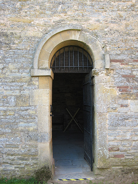 Entrance arch in the north wall of Odda's chapel, Deerhurst, Gloucestershire